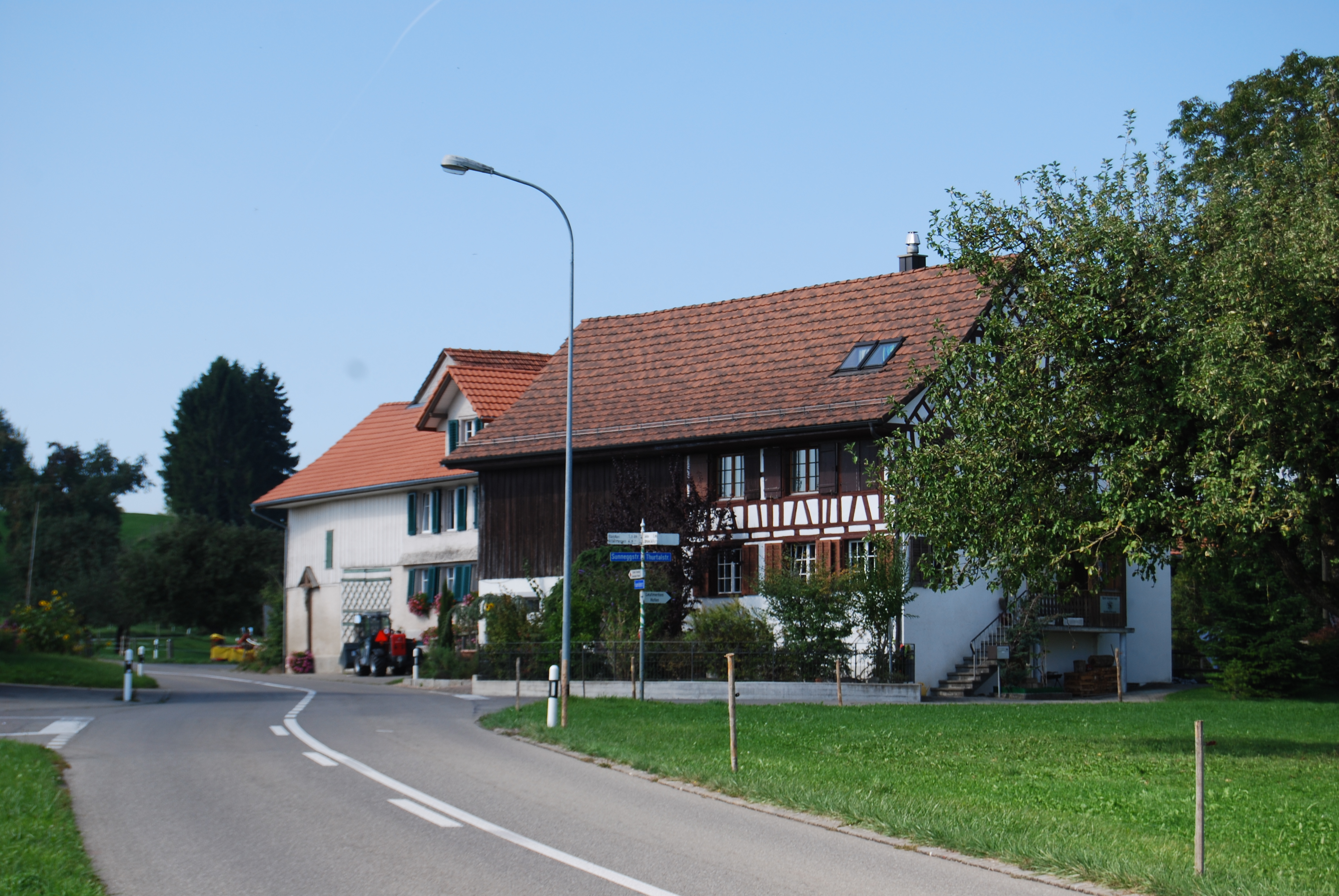 Kreuz-Hub, canton of Thurgovia, Switzerland